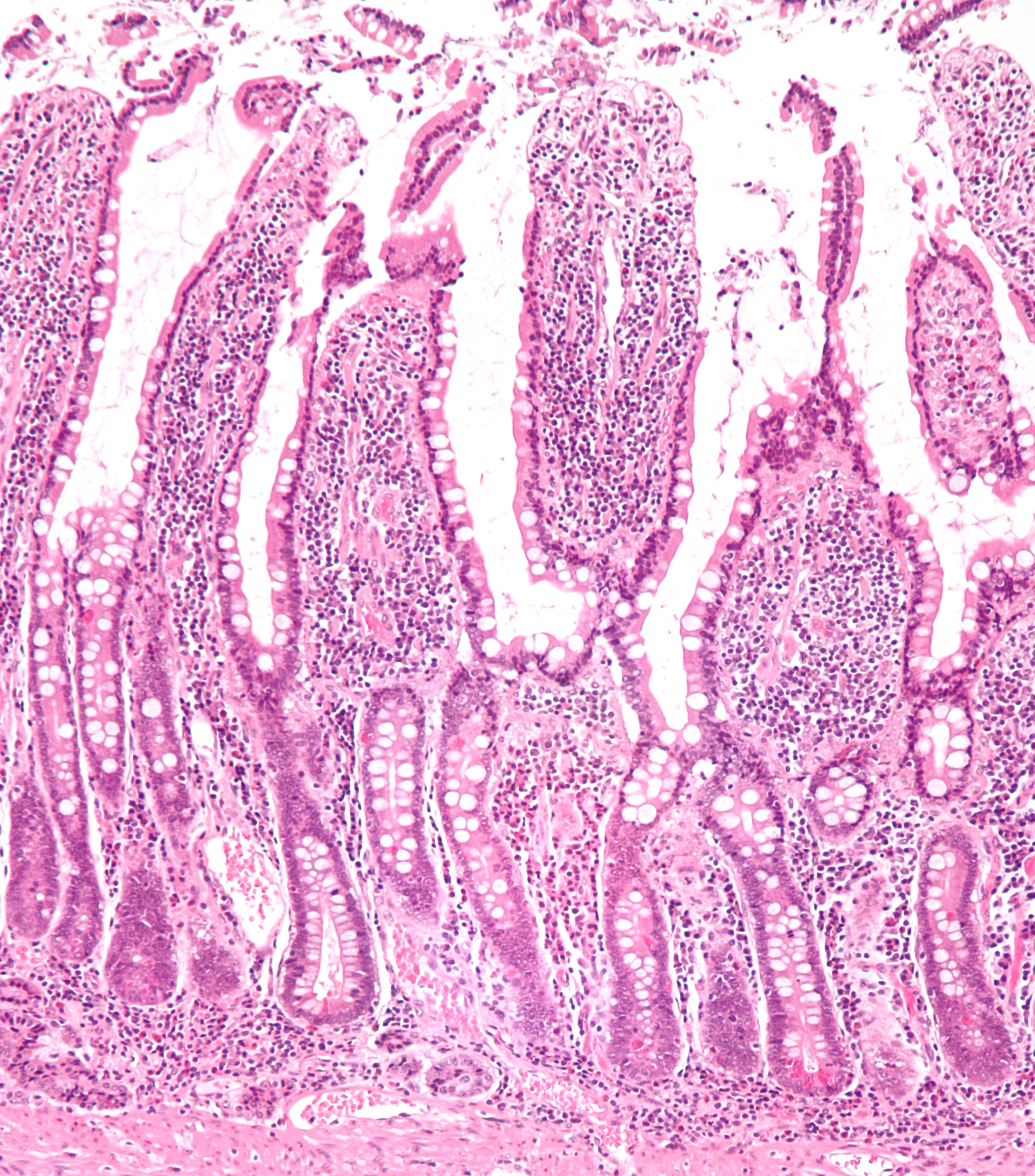 Low magnification micrograph of small intestinal mucosa. H&E stain. See also Image:Small intestine neuroendocrine tumour low mag.jpg